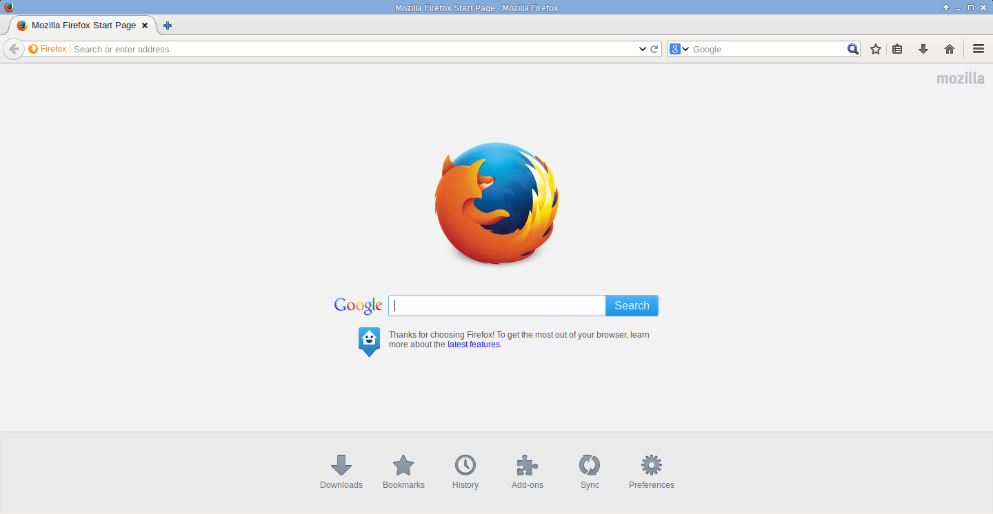 Firefox 33.0.3 / Xfce desktop enviroment